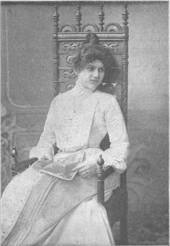 Portrait of Ida Salden (1878-?), German singer